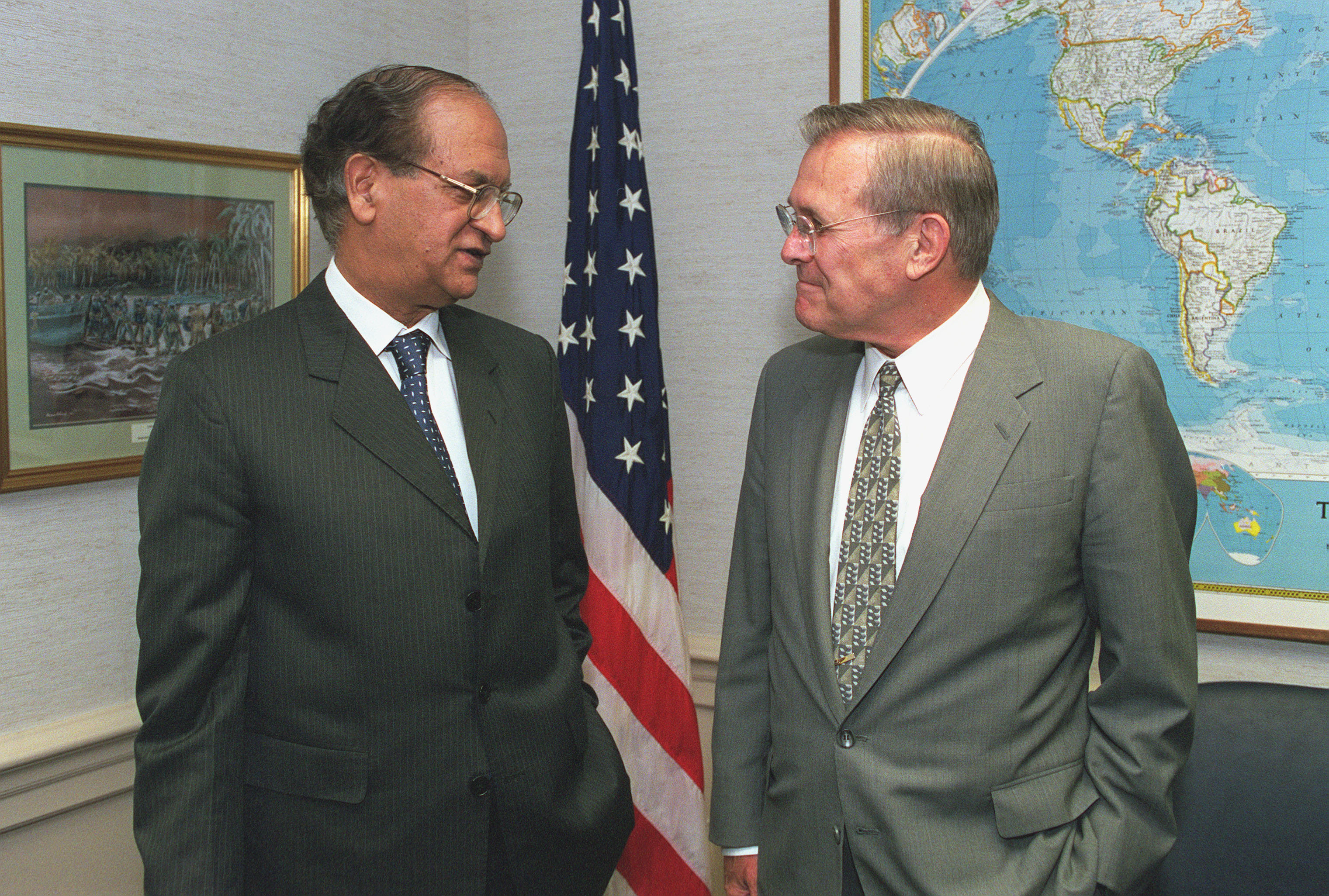 Abdul Sattar (left), Pakistan's minister of foreign affairs, meets at the Pentagon, June 19, 2001, with Secretary of Defense Donald H. Rumsfeld (right). Rumsfeld and Sattar discussed a number of cooperation issues of interest to both nations.